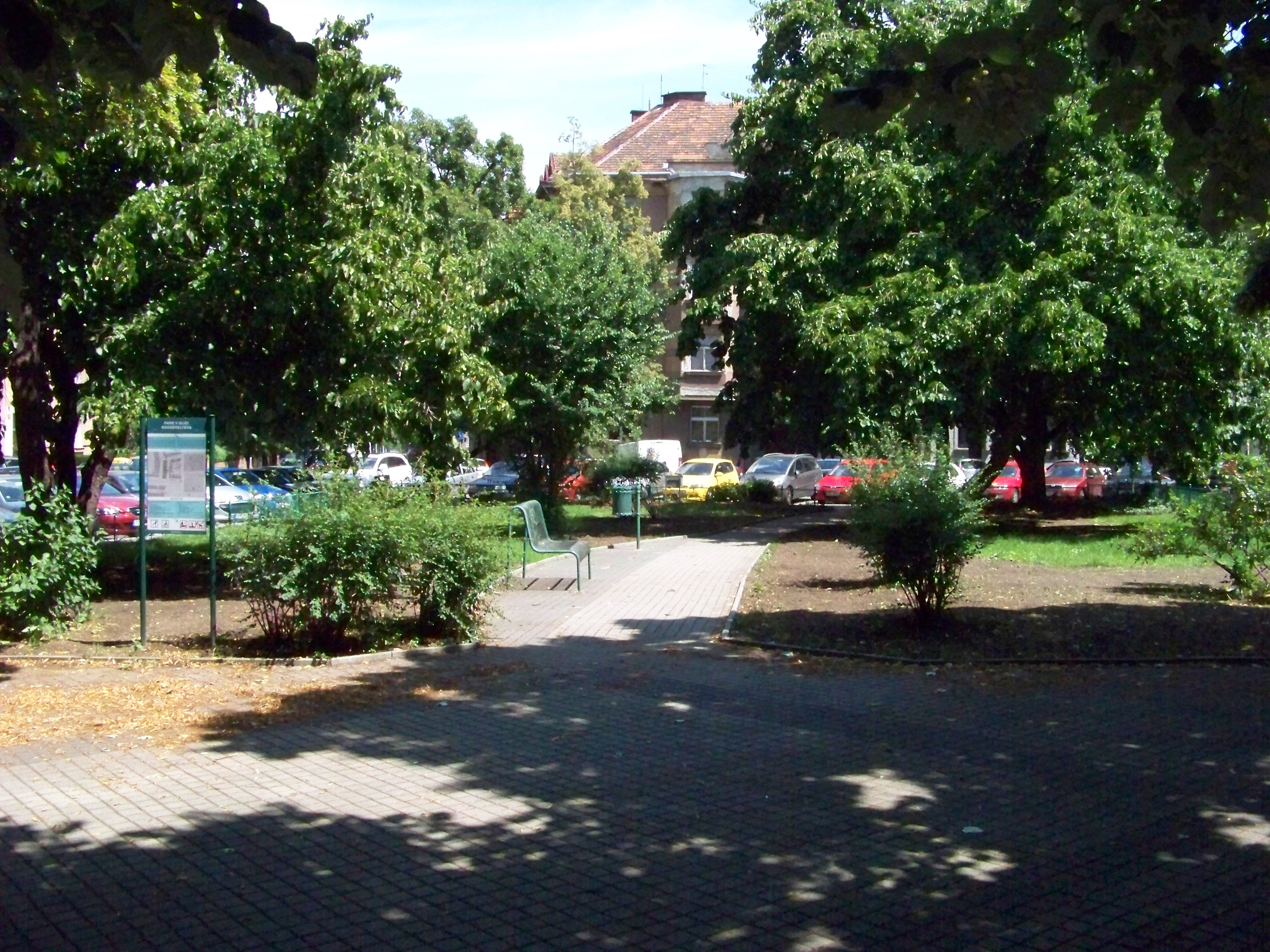 Prague-Bubeneč, the Czech Republic. Rooseveltova street, a park. - OpenStreetMap(Info)